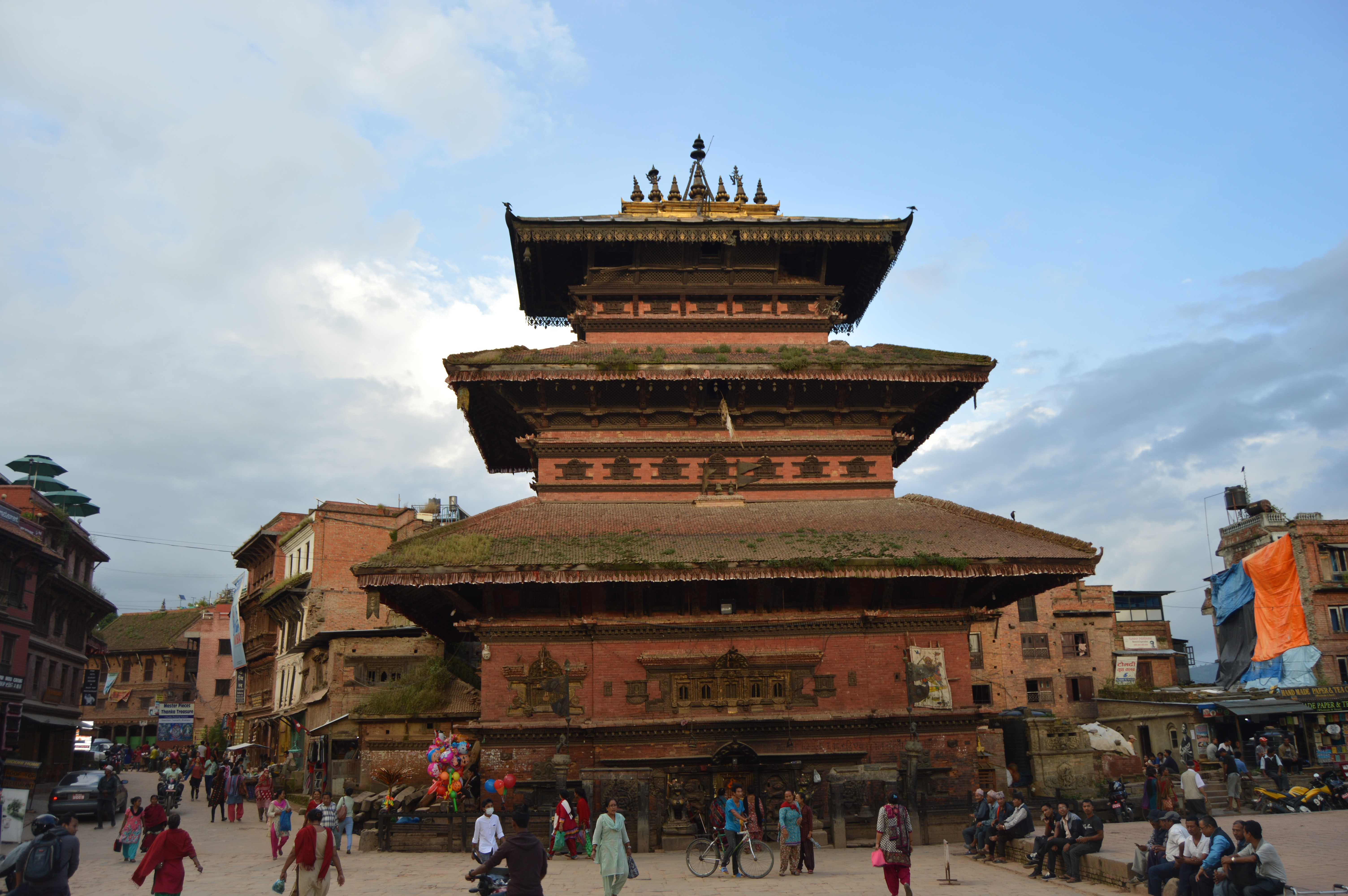 Bhairavnath Temple